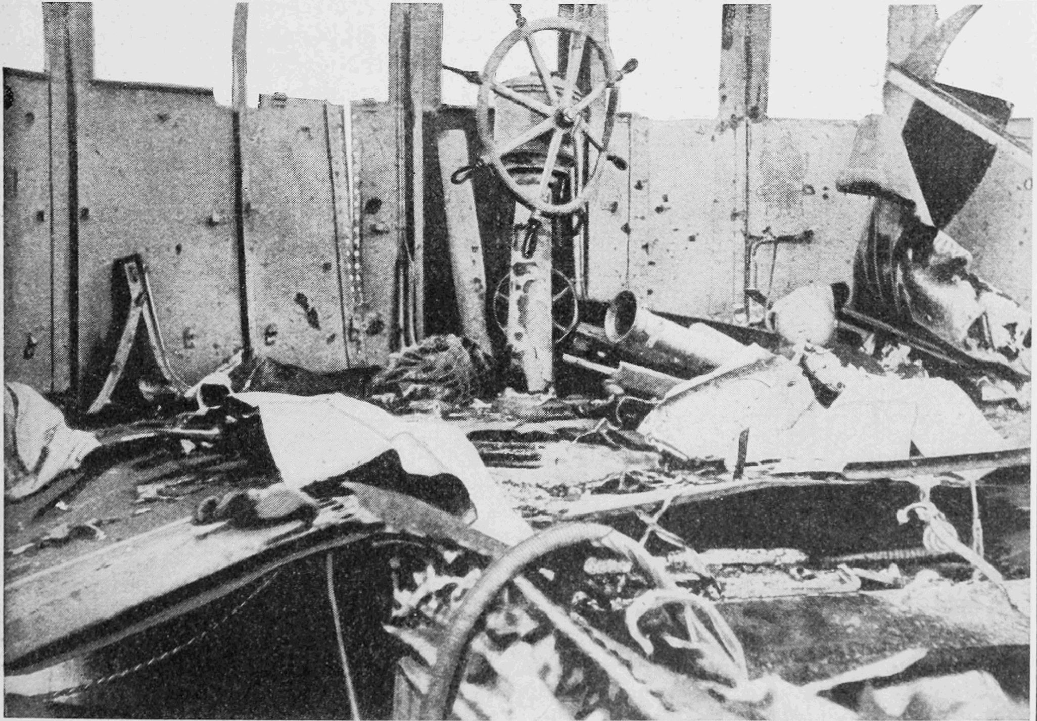 Destroyed bridge of the commerce raider Emden